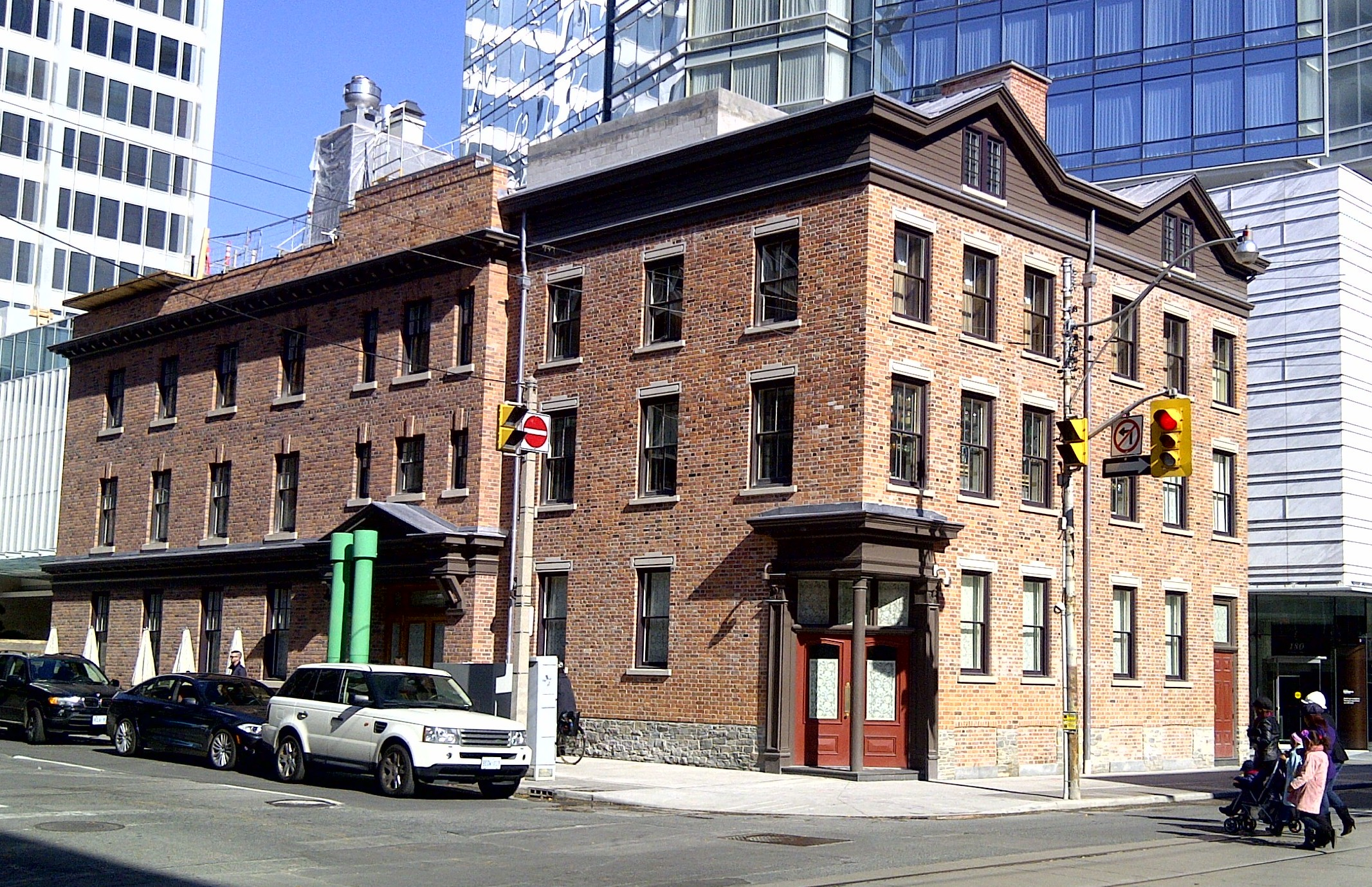 The Bishop's Block building at 192 Adelaide Street West, Toronto, Ontario, Canada. Constructed in 1829 as a set of five townhomes. For a brief time, circa 1836, one house was occupied by the author Anna Jameson, whose novel Winter Studies and Summer Ramble in Canada chronicled some of her time spent living in downtown Toronto. In the 1850s, the building was converted into the Adelaide Hotel. Known in the mid-20th century as the Pretzel Bell Tavern. Two townhomes remain, and the upper storeys have been largely unused since the 1940s. Vacant for a number of years, the building was restored and incorporated into the newly-constructed 63-storey Shangri-La hotel and residences on the neighbouring property. Currently occupied by the Toronto outpost of the Soho House, a private members club founded in 1995 in London, England.